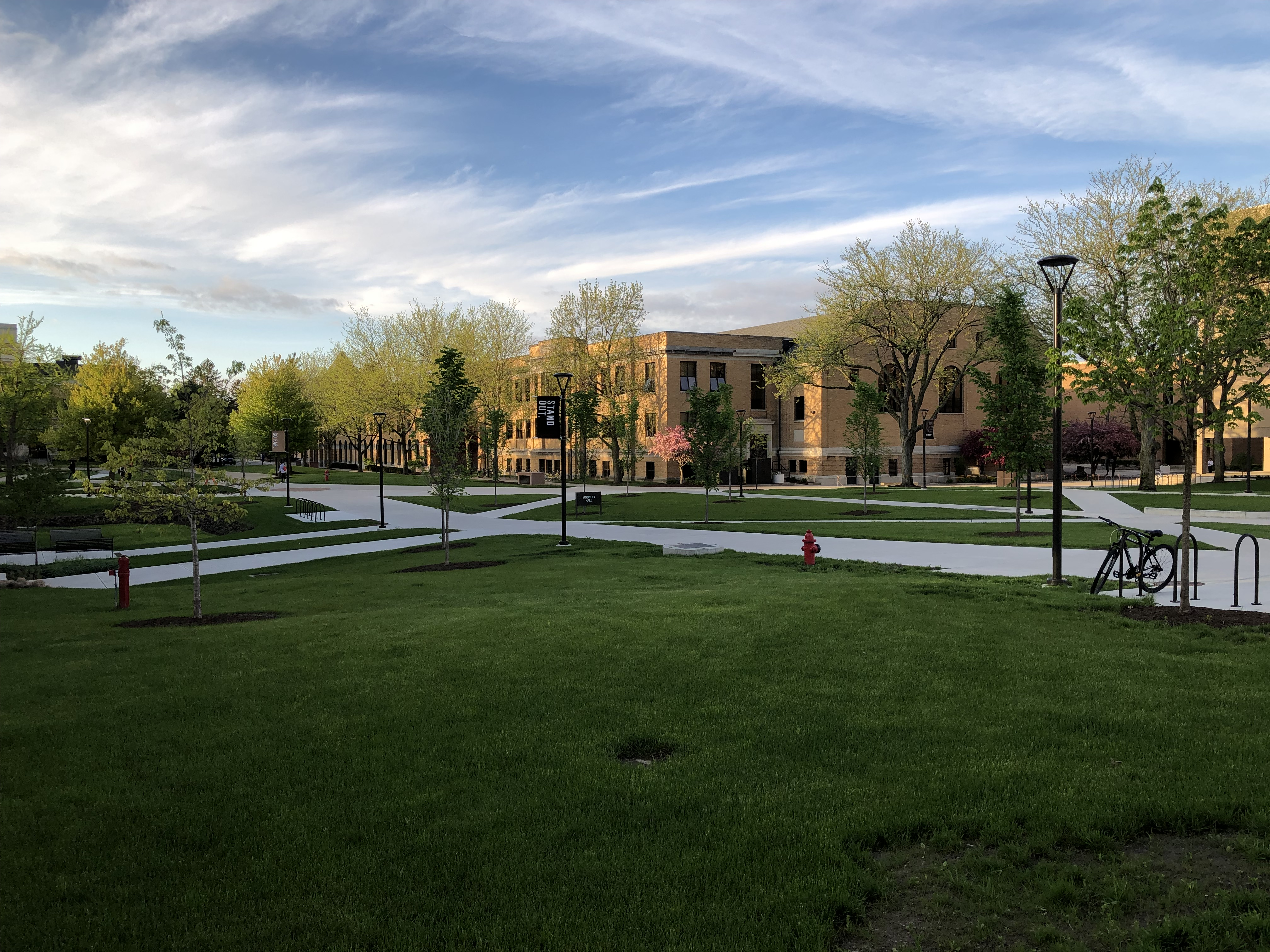 Eppler Hall at BGSU